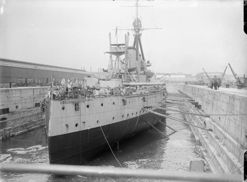 Photograph of HMS Dreadnought in dry dock at Portsmouth during a refit.